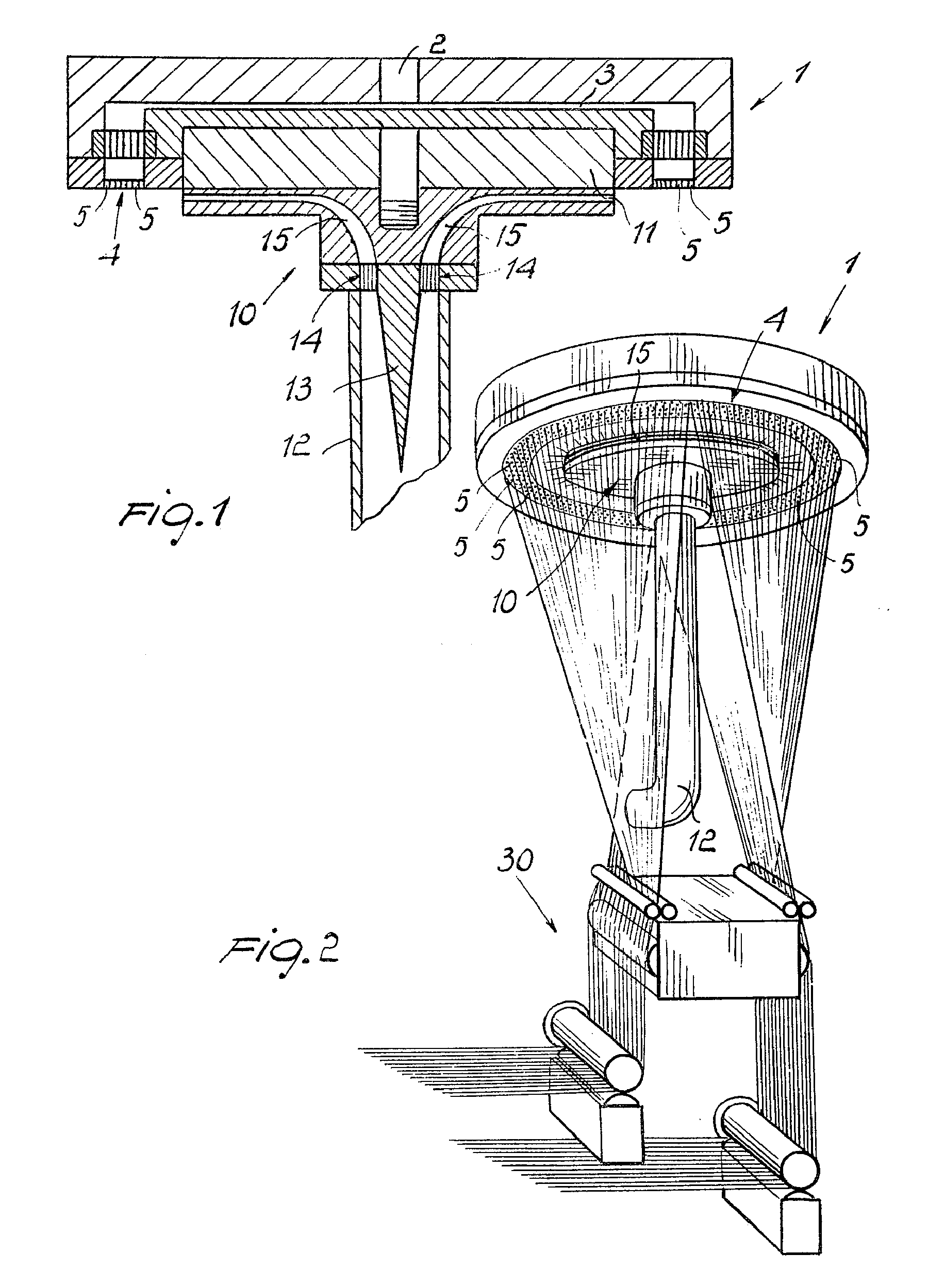 Spinneret and spinning head